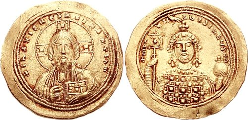 Michael IV the Paphlagonian. 1034-1041. AV Histamenon Nomisma (4.40 g, 6h). Constantinople mint. Facing bust of Christ Pantokrator / Facing bust of Michael, wearing crown and loros, holding labarum and globus cruciger; manus Dei above. DOC 1; SB 1824. Good VF, slightly toned.